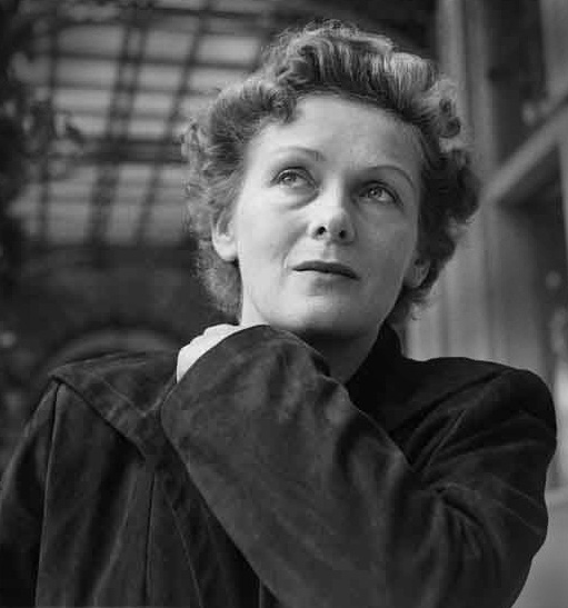 Elisabeth Schwarzkopf in Lucerne